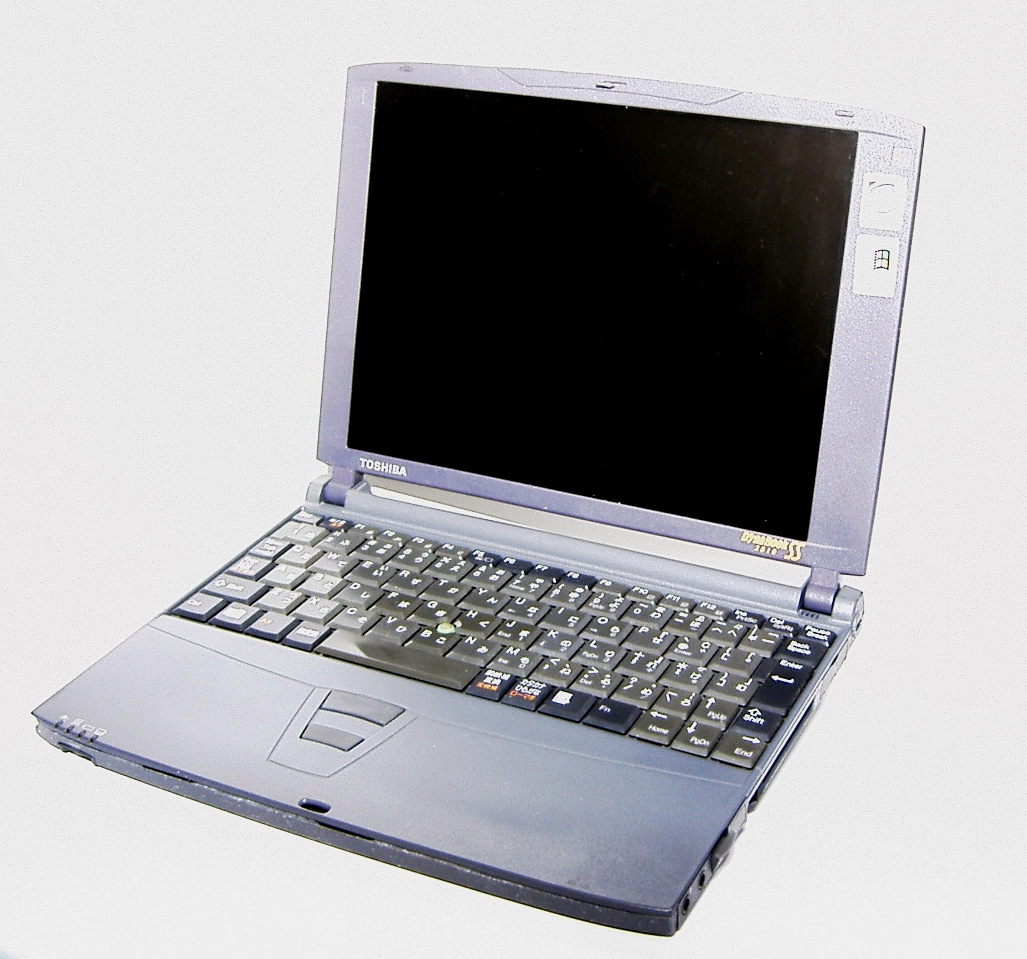 Personal Computer TOSHIBA_DynabookSS 3010